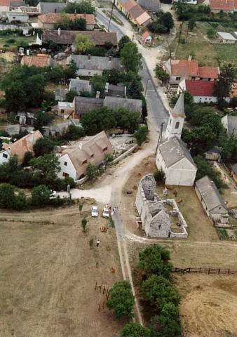 Dörgicse, Hungary, aerial photography